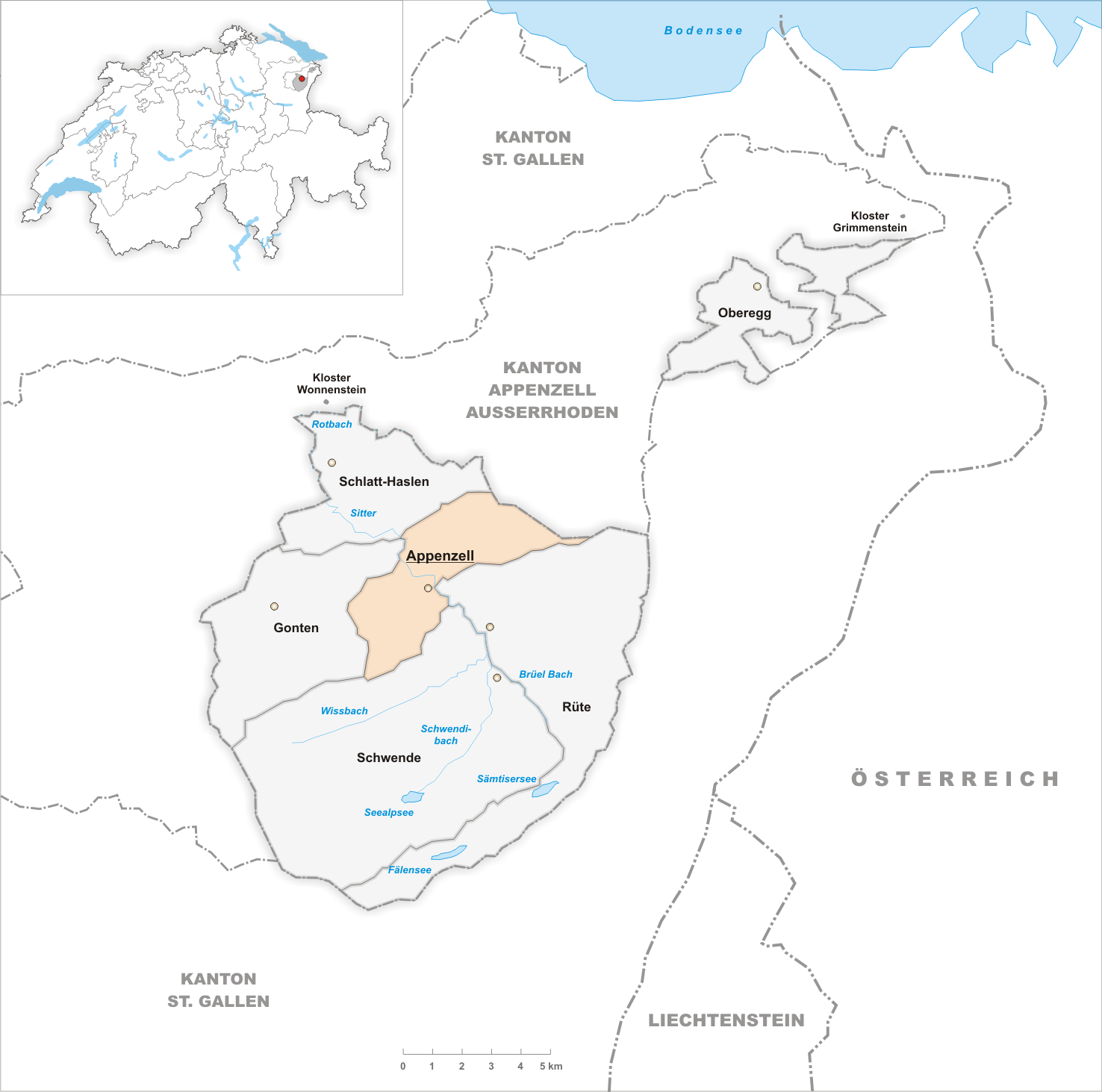 Municipality of Appenzell Artist: Tschubby